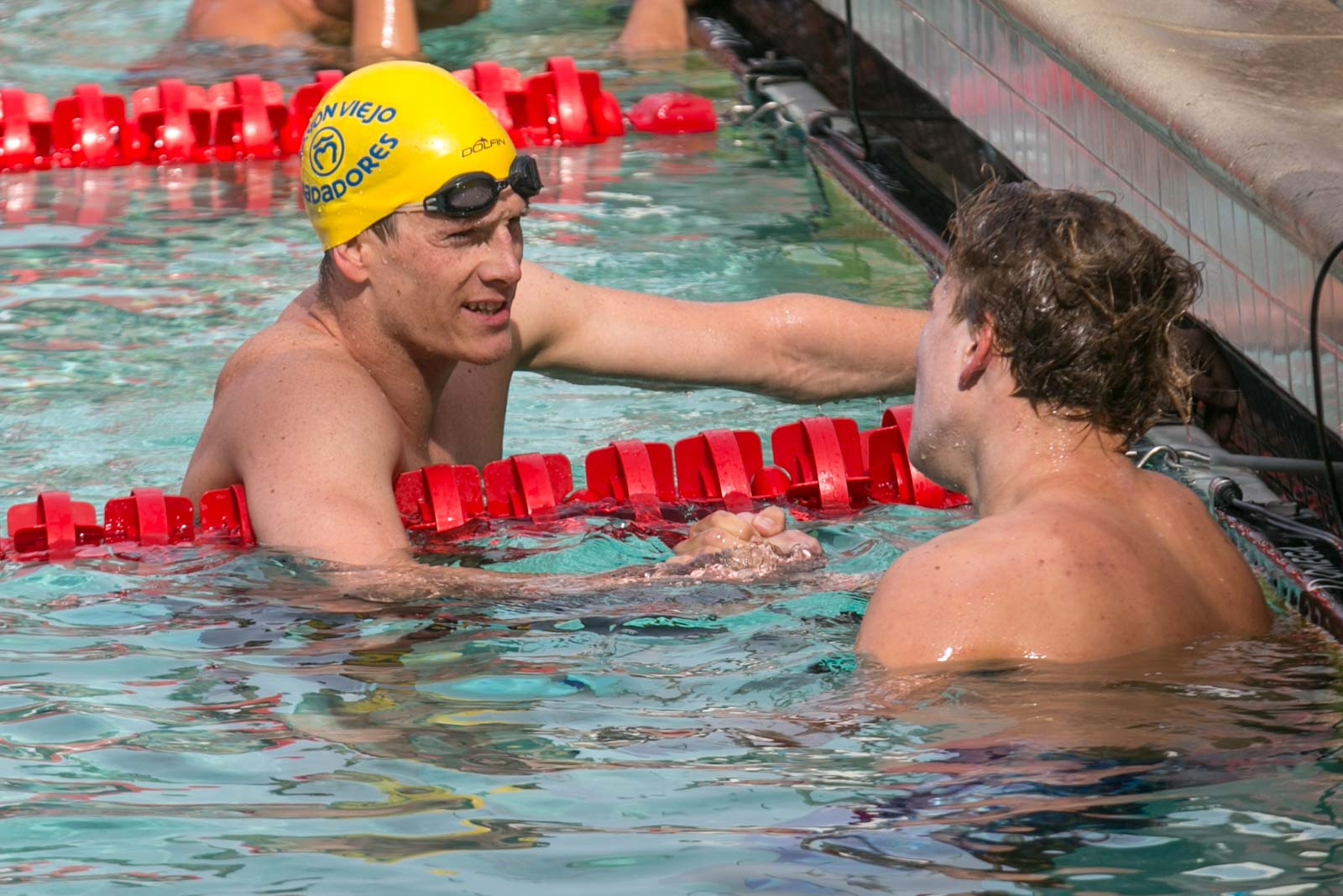 Zane Grothe after winning 800m free